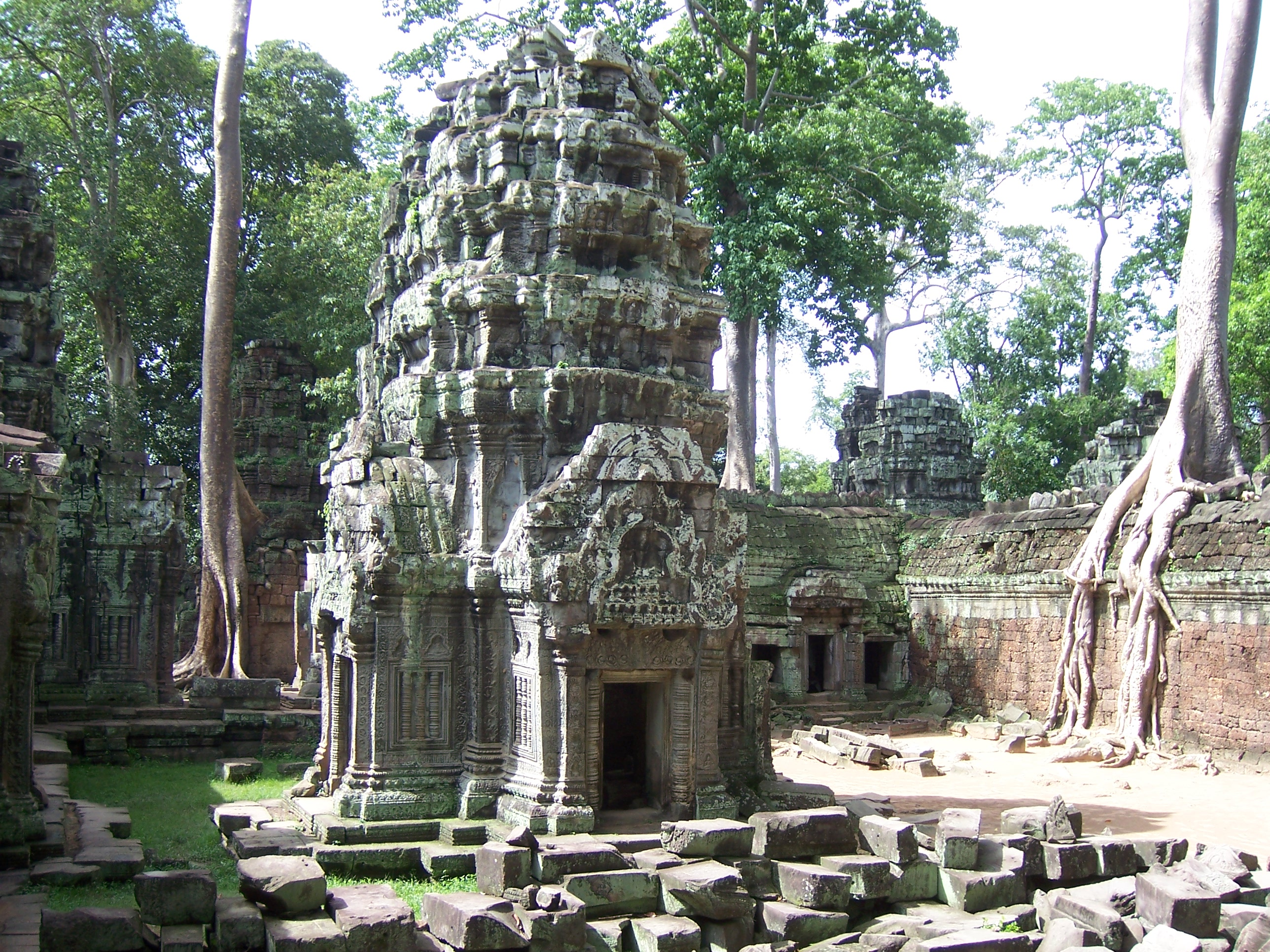 Ta Prohm (Angkor temples), north of Siam Reap, Cambodia